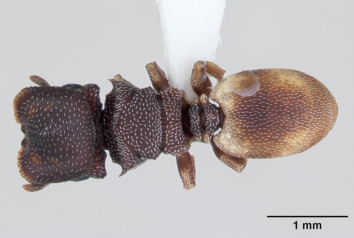 Dorsal view of ant Cephalotes maculatus specimen casent0173689.